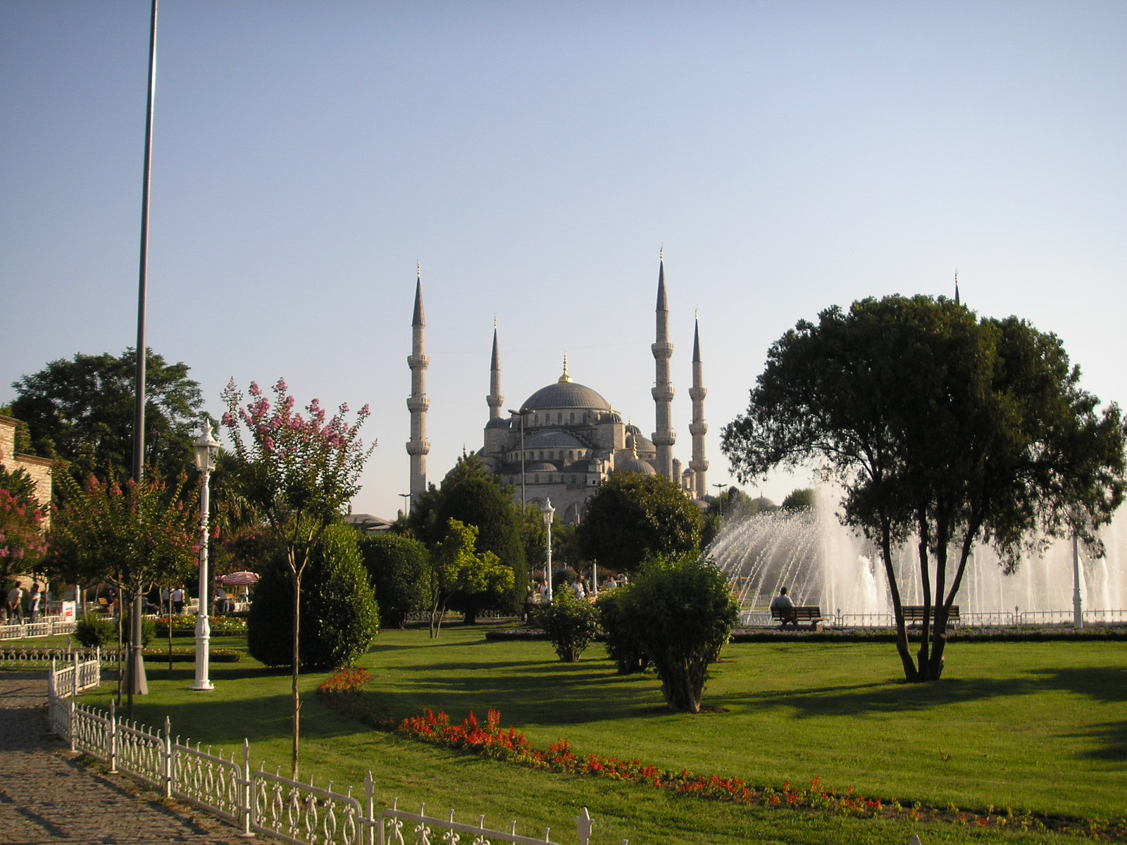 View of blue mosque as seen from the Hagia Sophia Square, in Istanbul.